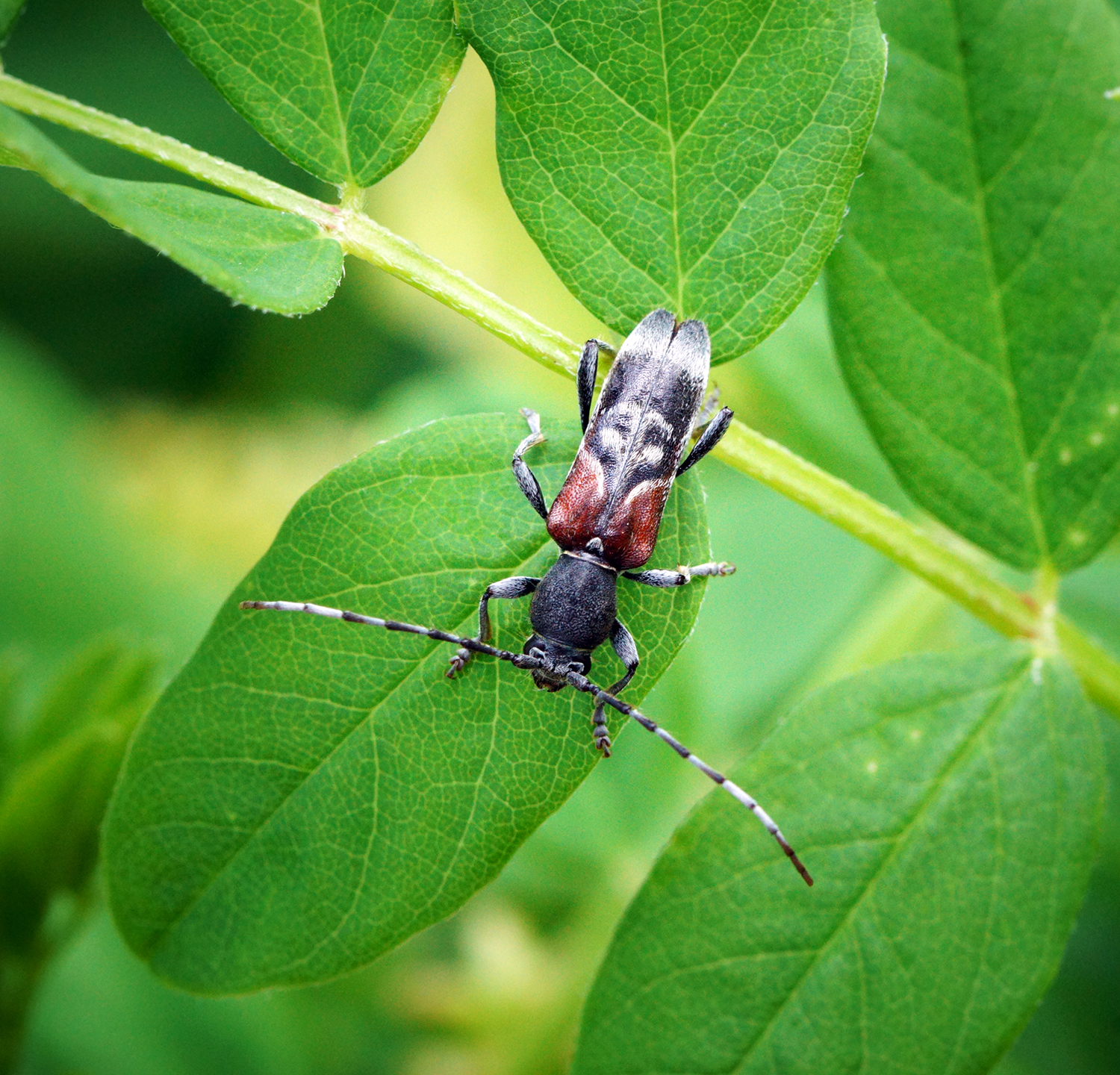 In search of the Wild Liquorice Moth...a tip off Last Monday whilst out and about with work, I had a quick walk along a known site for Grapholita pallifrontana, otherwise known as the Wild Liquorice Moth. Luckily to save me time in ssearching, Andy Banthorpe had said that he saw it at Old Warden Tunnel which is a disused railway line left to nature and what a beautiful place it is. Unfortunately the wind was very strong and upnon finding the foodplant there were no visible signs of the moth sitting on the foodplant, so I gently swept it and on my 4th sweep had what I had come looking for. I did a few more sweeps but no more were found. I can only assume that because of the strong breeze that they were staying lower down on the stems of the plant. Other bits of interest were several Burnet Companions flying around as well as a few sightings of Burnet Moths. On Cow Parsley was the striking Lepturinae Rutpela maculata and whilst sweeping grass randomly I turned up a new species of Cerambycidae for me, the pretty Anaglyptus mysticus. So all in all a quick 30 minute walk was well worth it.